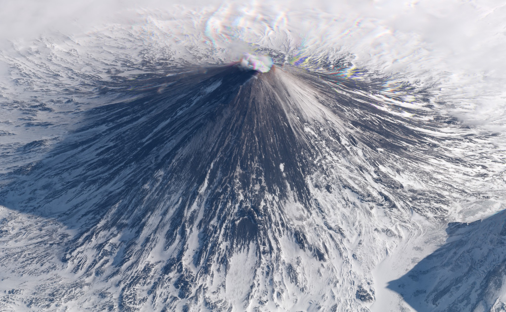 SkySat satellite image of Klyuchevskaya Volcano, Russia